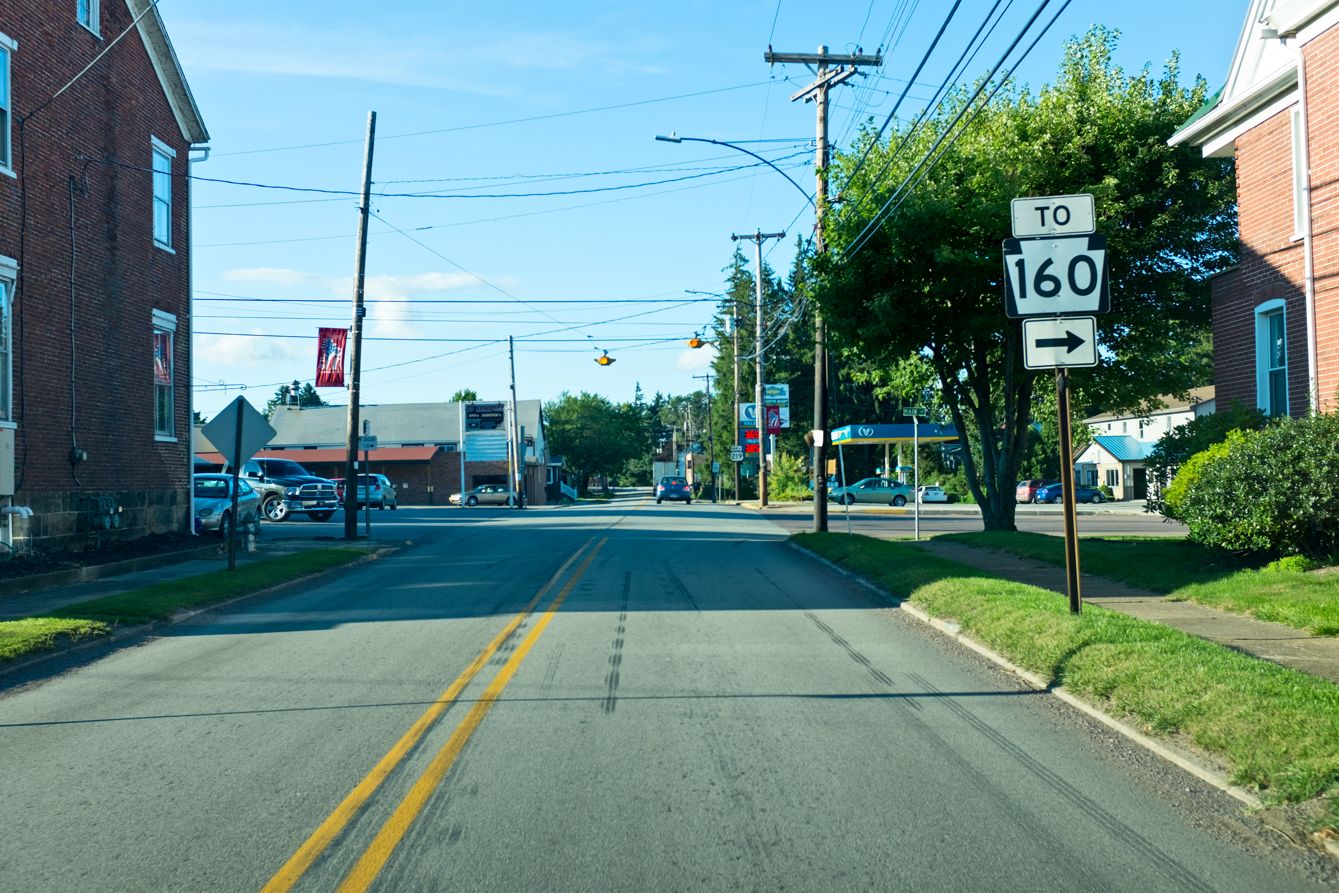 Berlin, Pennsylvania. Looking northward on US Route 219